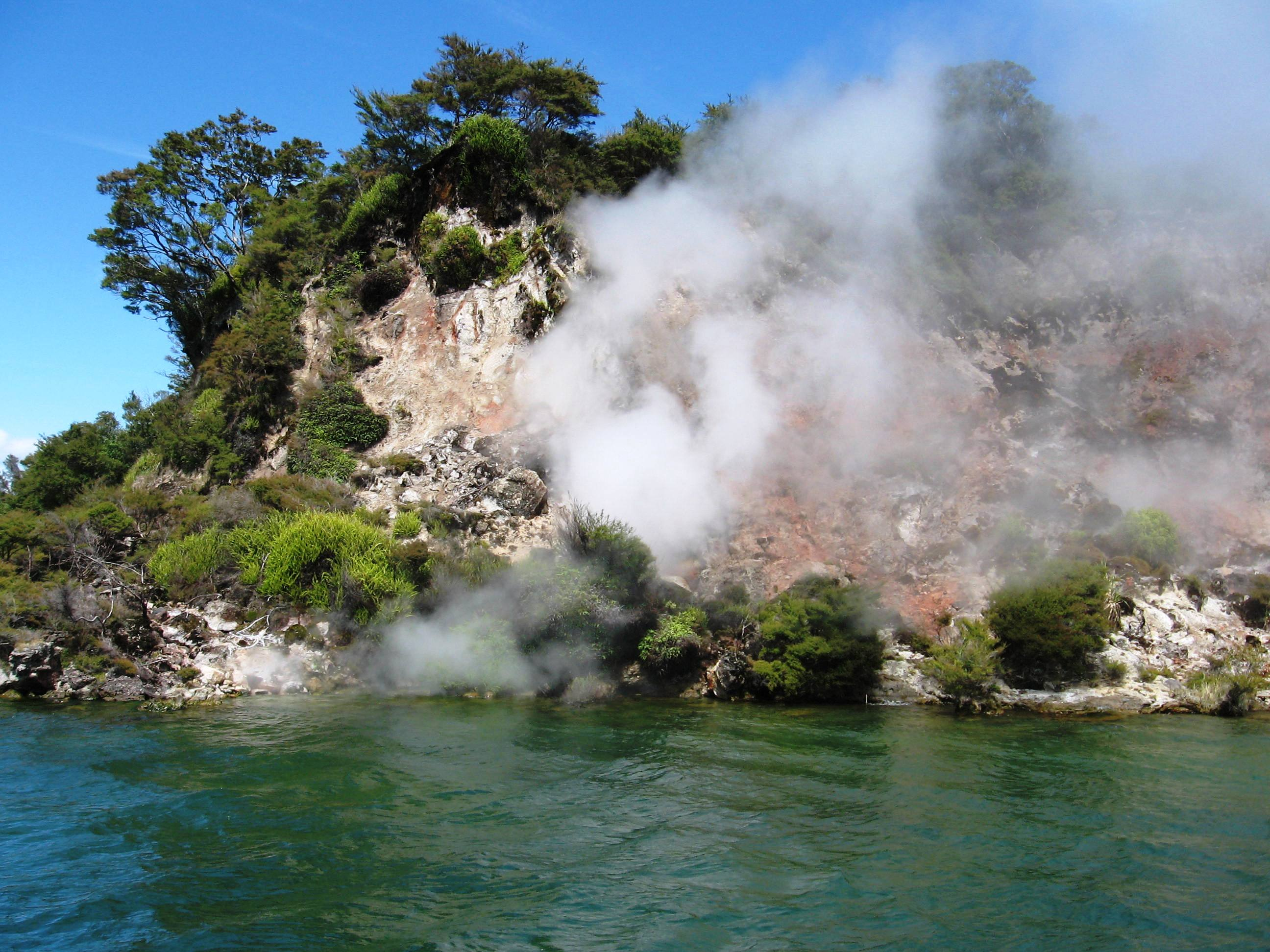 A wall along Lake Rotomahana, which was expanded in the 1886 eruption of Mount Tarawera. This location was the site of the White and Pink Terraces in the late 19th Century - hot springs that grew into massive, terraced formations, hundreds of feet high, that were a tourist attraction for English and Europeans who wanted to "take the waters." The Terraces were destroyed in the 1886 eruption.